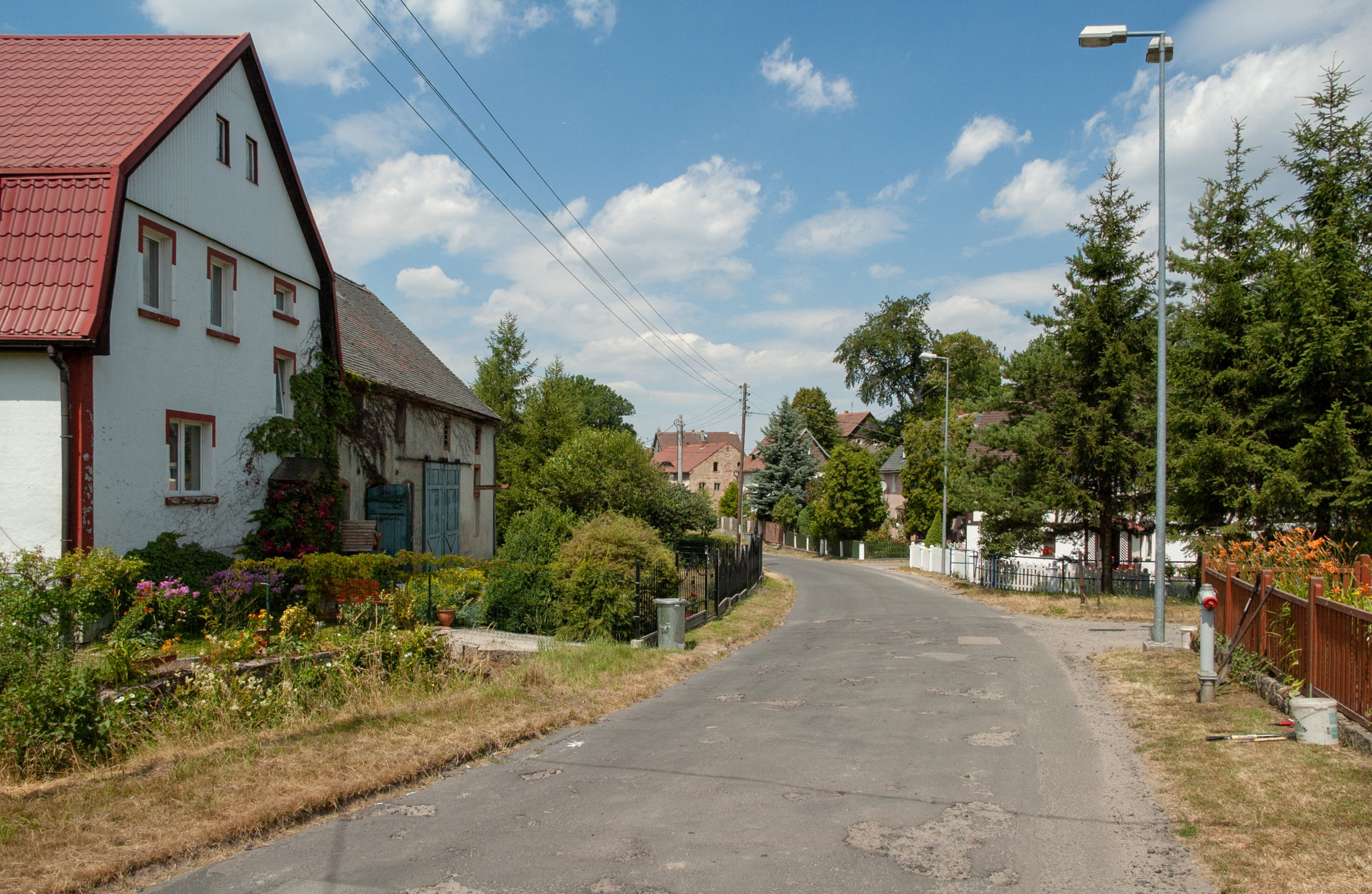 This photograph was created as a part of Wikiexpedition Lower Silesia, a project supported by Wikimedia Poland grant.